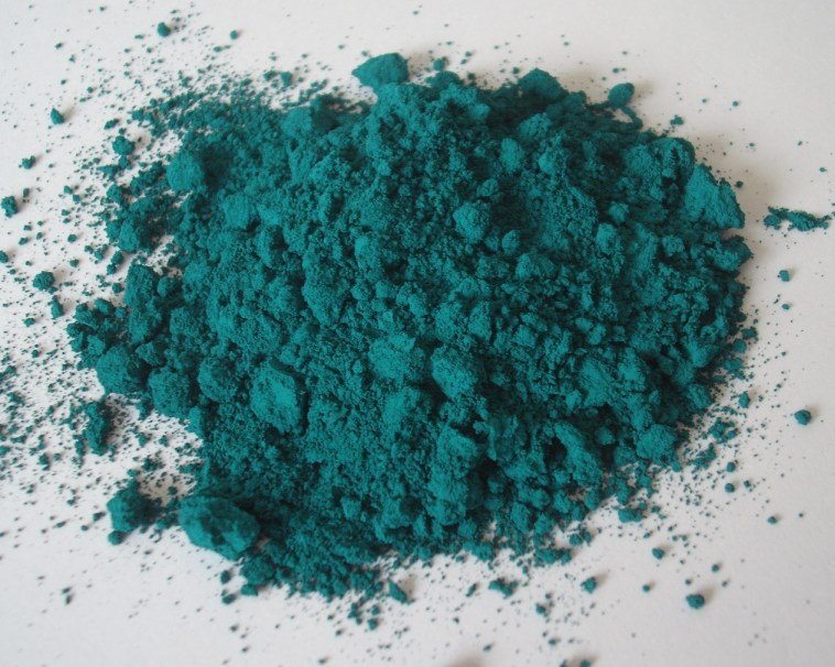 Cobalt Chromium Blue